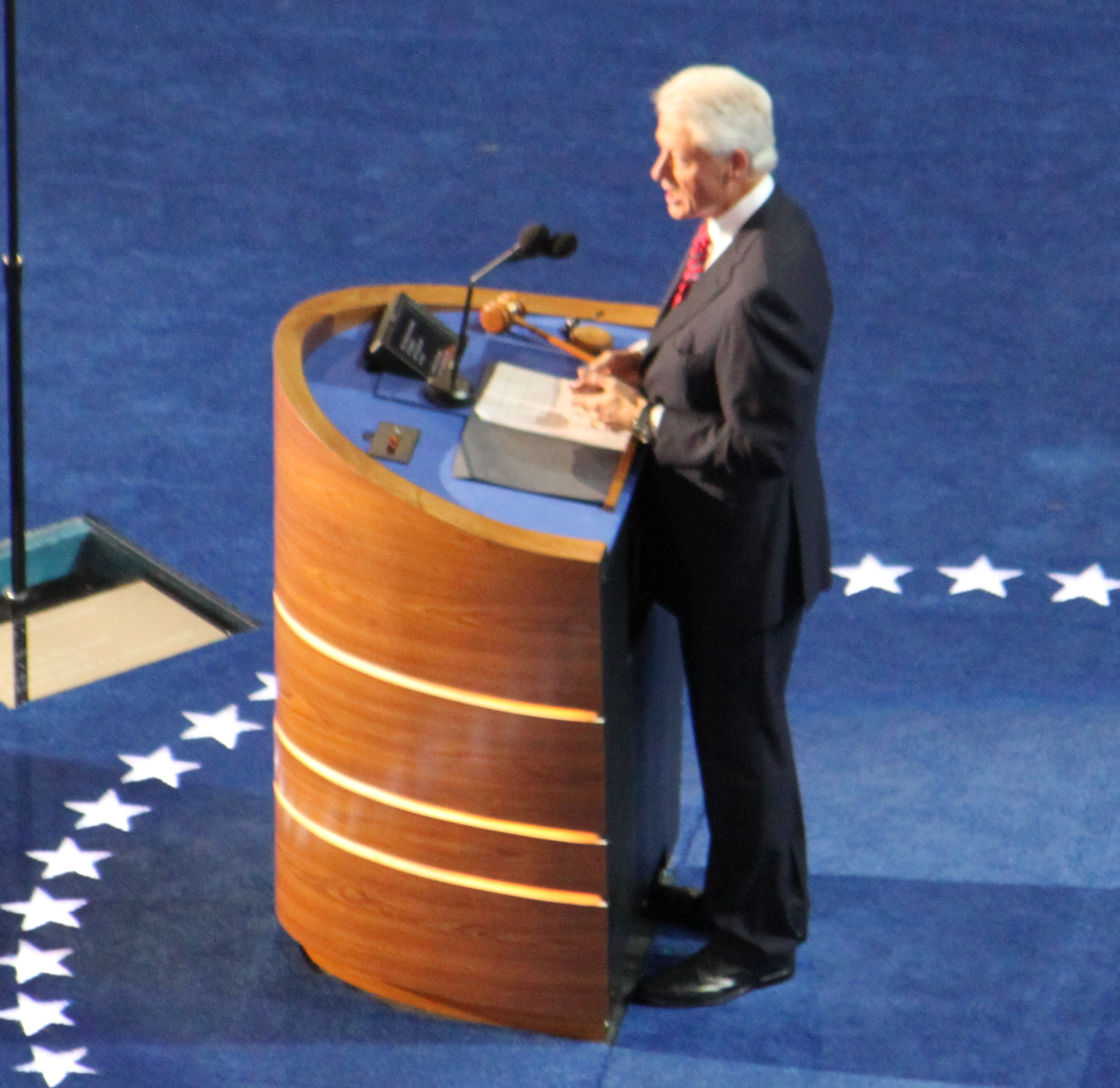 2012 Democratic National Convention: Day 2